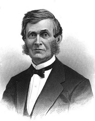 Henry Cruse Murphy, Congressman from New York